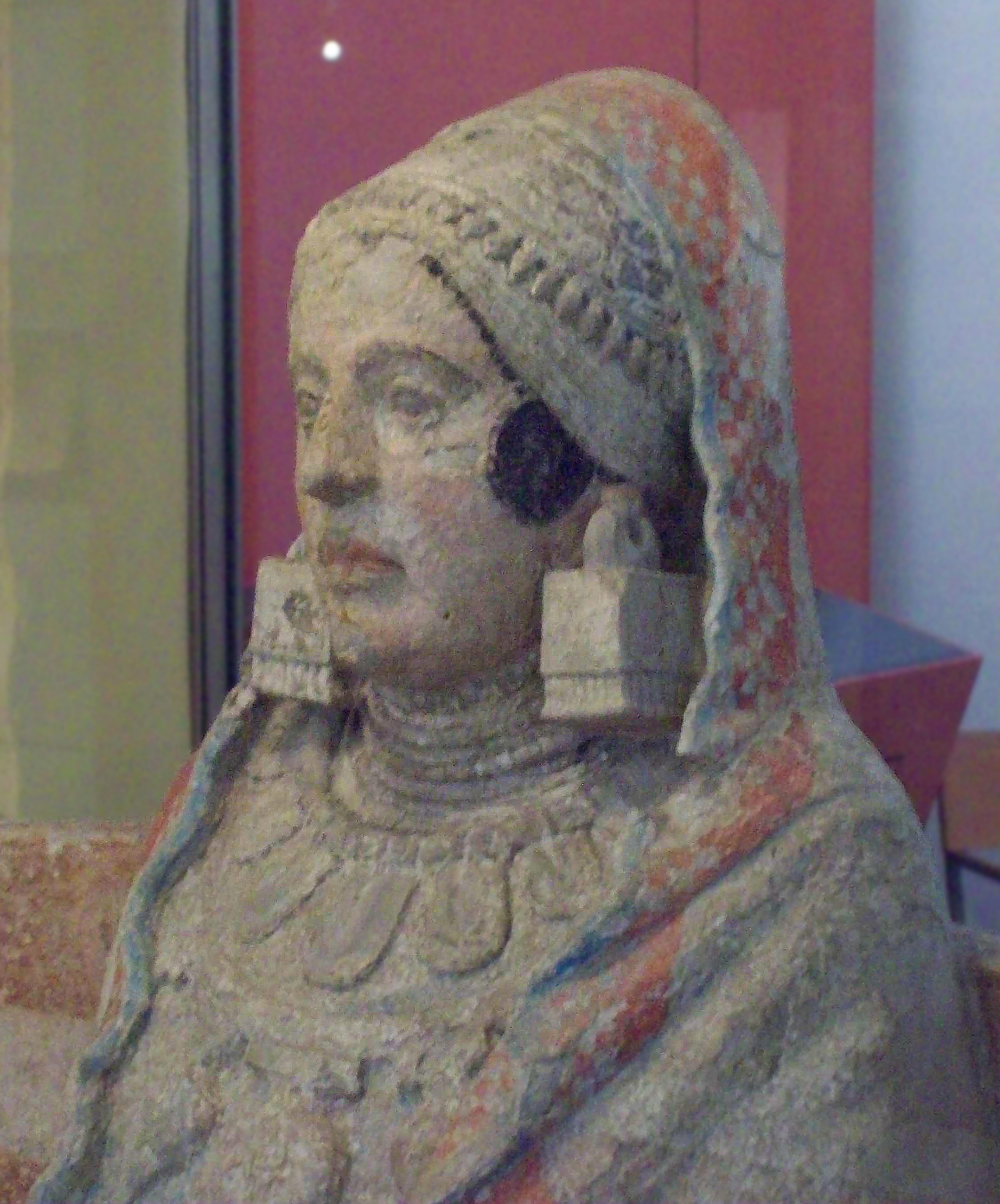 Iberian sculpture.